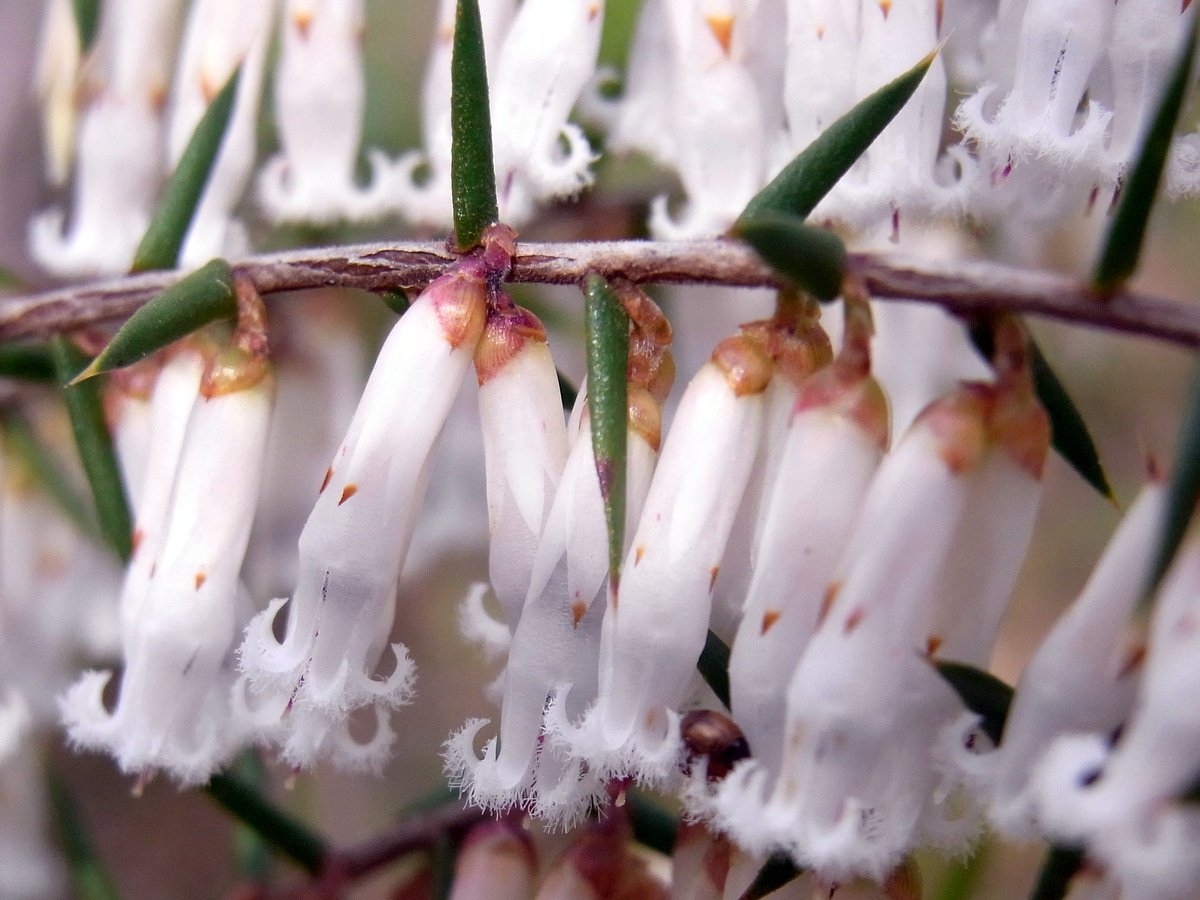 Leucopogon Blue Gum Swamp, likely to be Leucopogon fletcheri. NSW, Australia